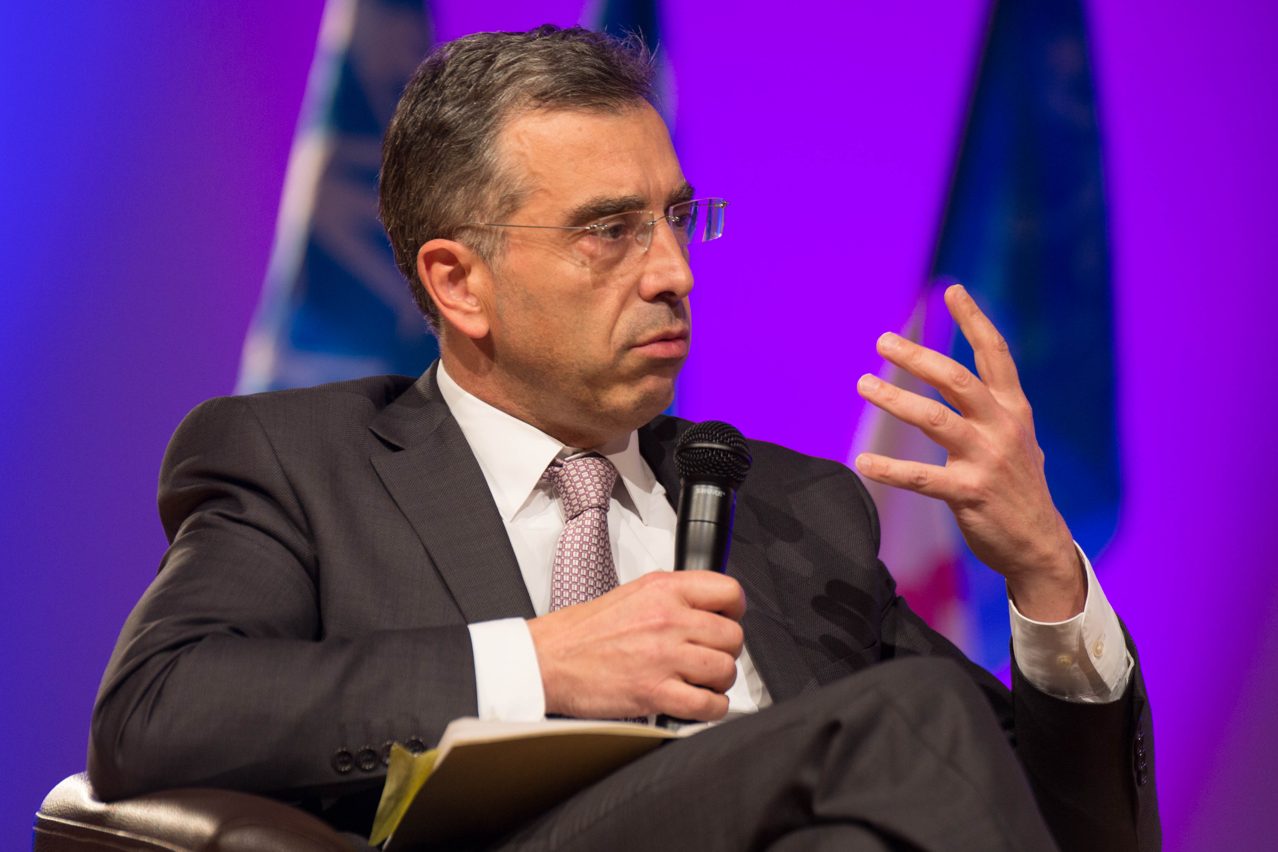 Dominique Reynié in 2015